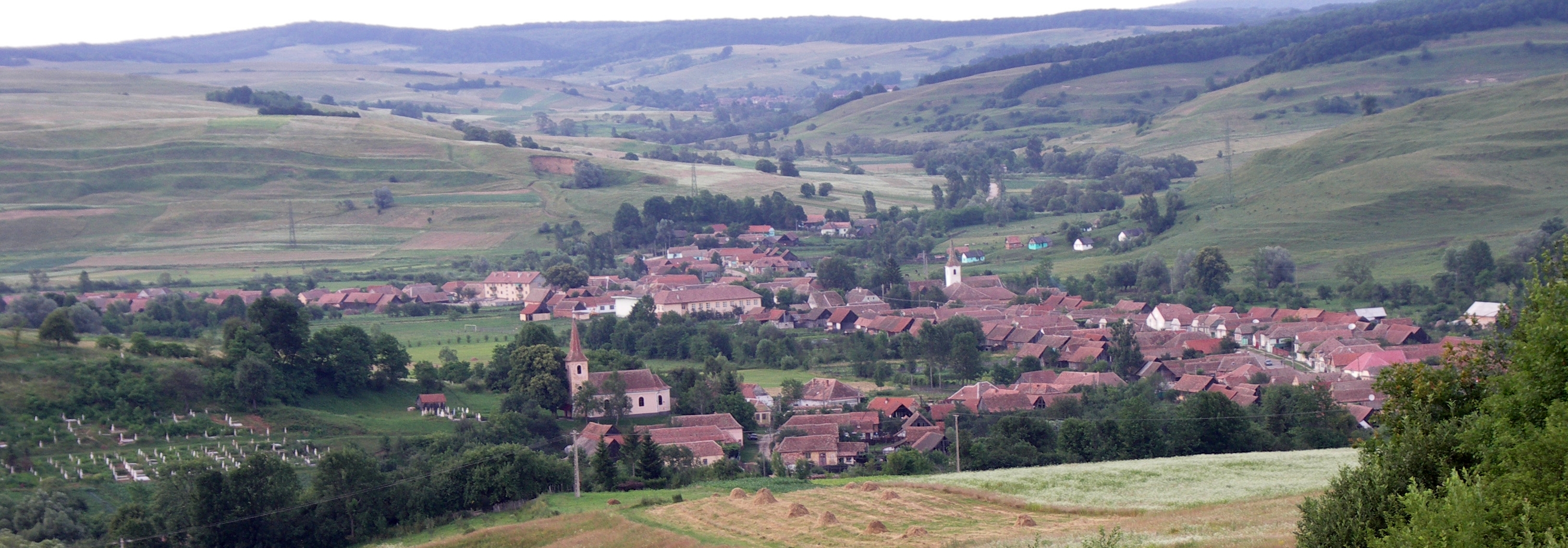 Bârghiş